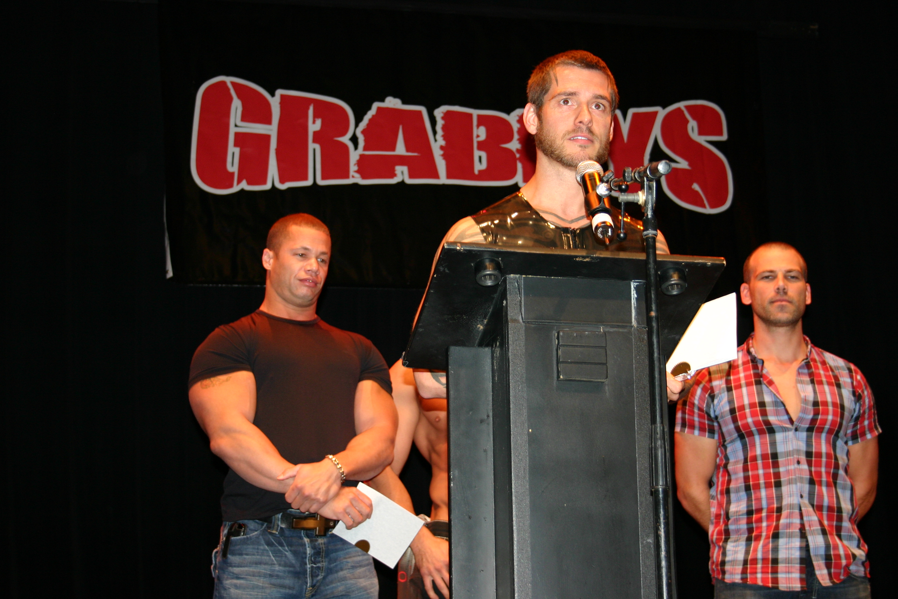 GrabbyAwards_20090523_315